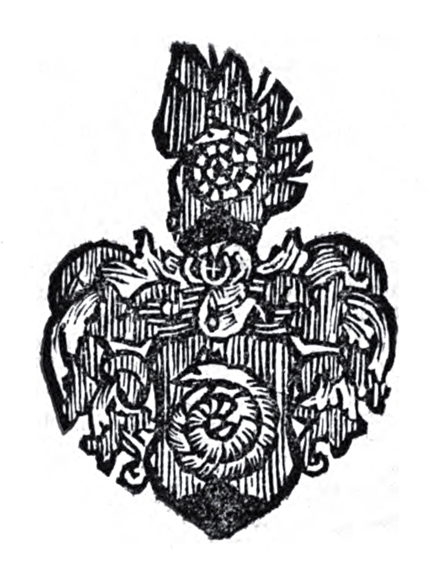 Coat of Arms of Moser from Eggendorf